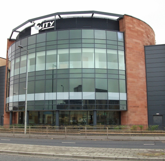 Caledonia House